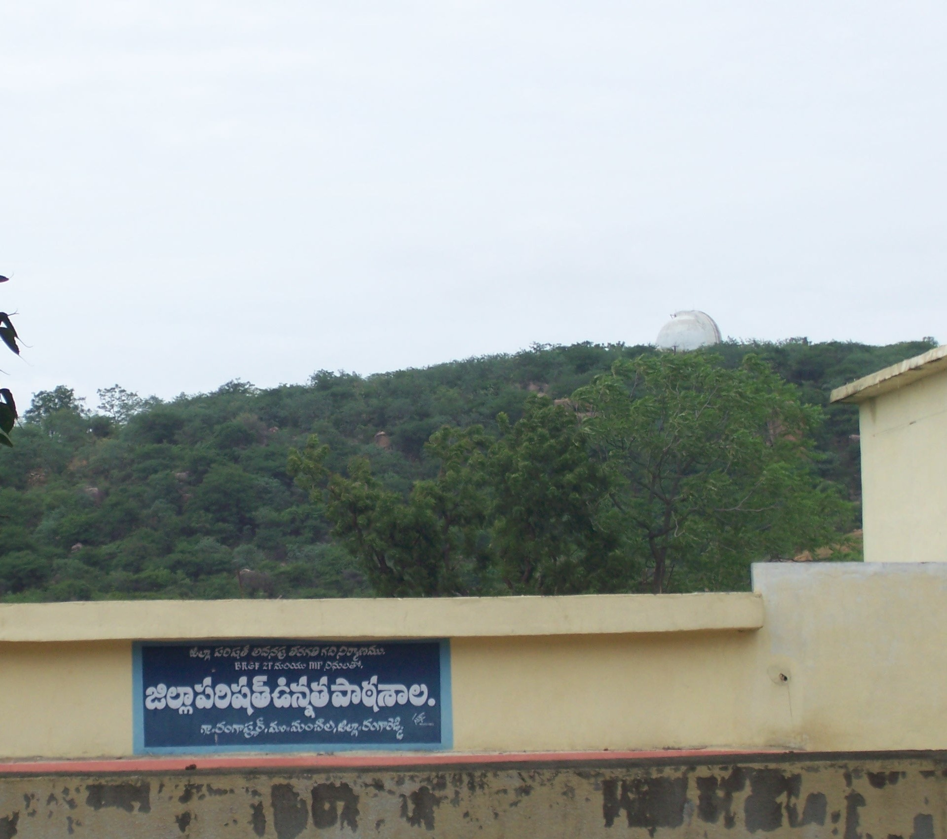 Telescope at Ramgaapor